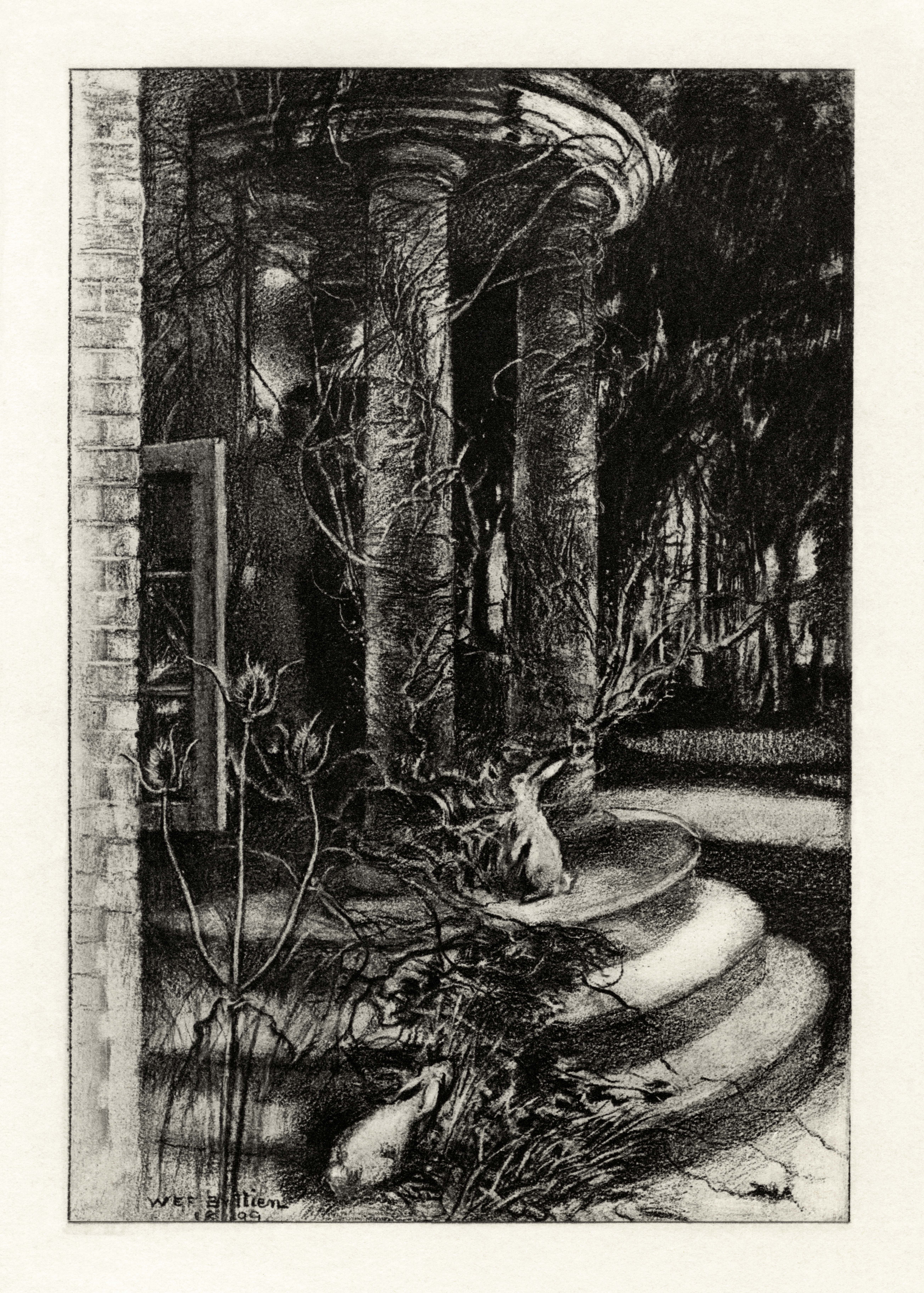 Illustration to Tennyson's "The Deserted House" by W. E. F. Britten. The metaphor is fairly obvious. Life and Thought have gone away Side by side, Leaving door and windows wide. Careless tenants they! All within is dark as night: In the windows is no light; And no murmur at the door, So frequent on its hinge before. Close the door; the shutters close; Or through the windows we shall see The nakedness and vacancy Of the dark deserted house. Come away: no more of mirth Is here or merry-making sound. The house was builded of the earth, And shall fall again to ground. Come away: for Life and Thought Here no longer dwell; But in a city glorious - A great and distant city -have bought A mansion incorruptible. Would they could have stayed with us!